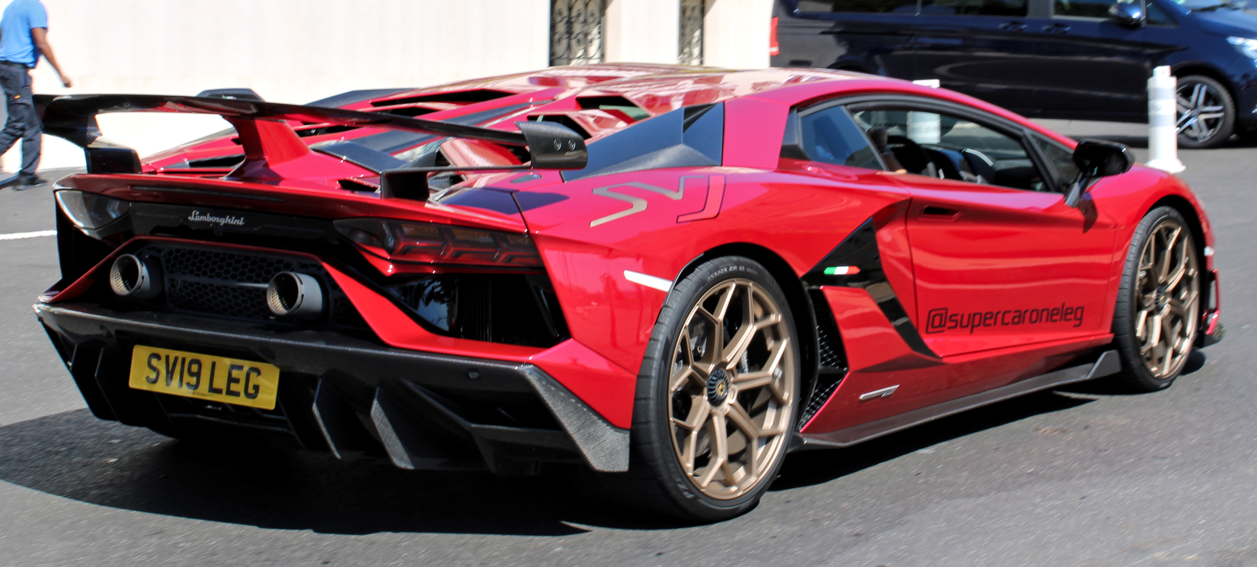 Lamborghini Aventador SVJ in Monaco